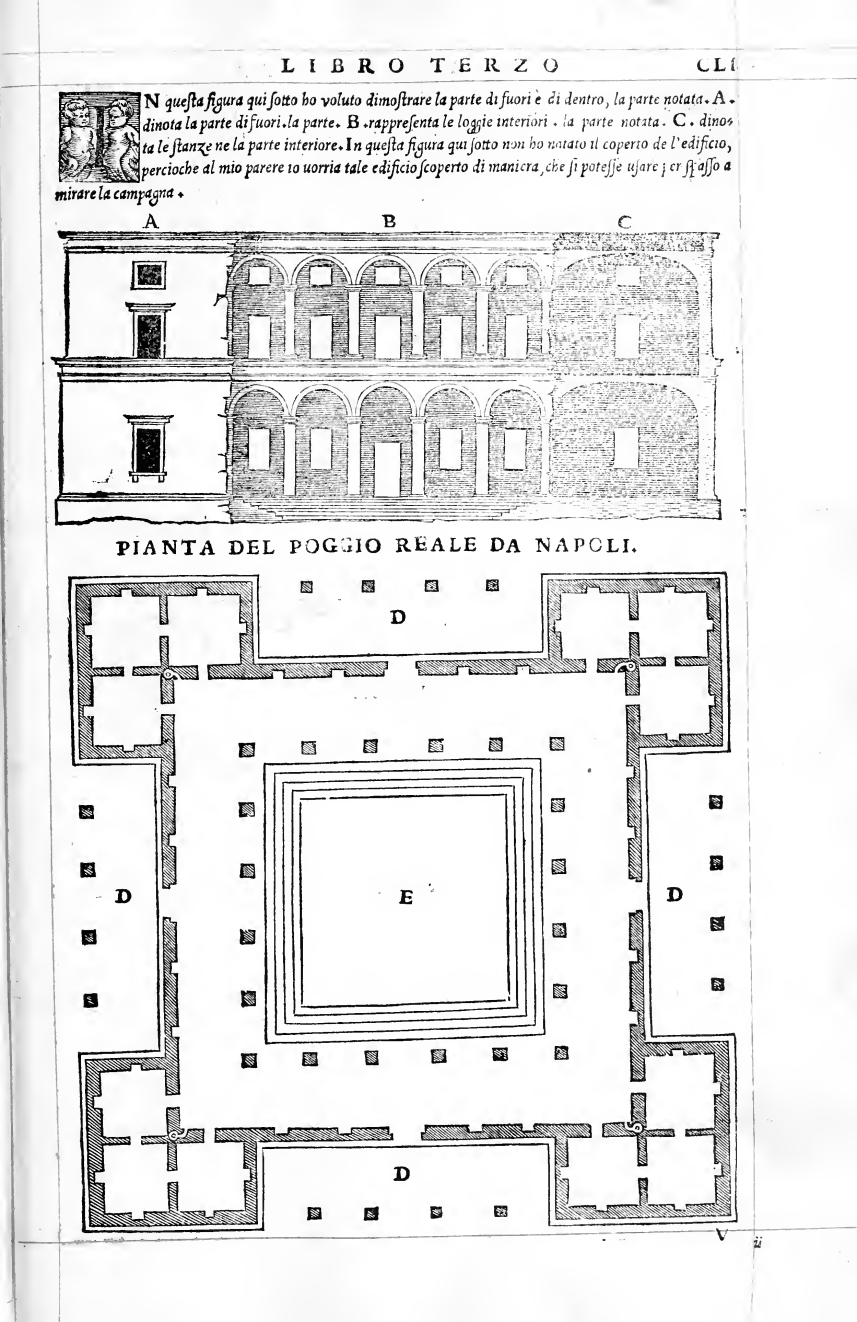 Image of page 157 from "Il terzo libro : nel qval si figvrano, e descrivono le antiqvita di Roma, e le altre che sono in Italia e fvori d'Italia ..." (The third book: which shows and describes antique architecture of Rome...), author Serlio, Sebastiano, 1475-1554, published 1540.